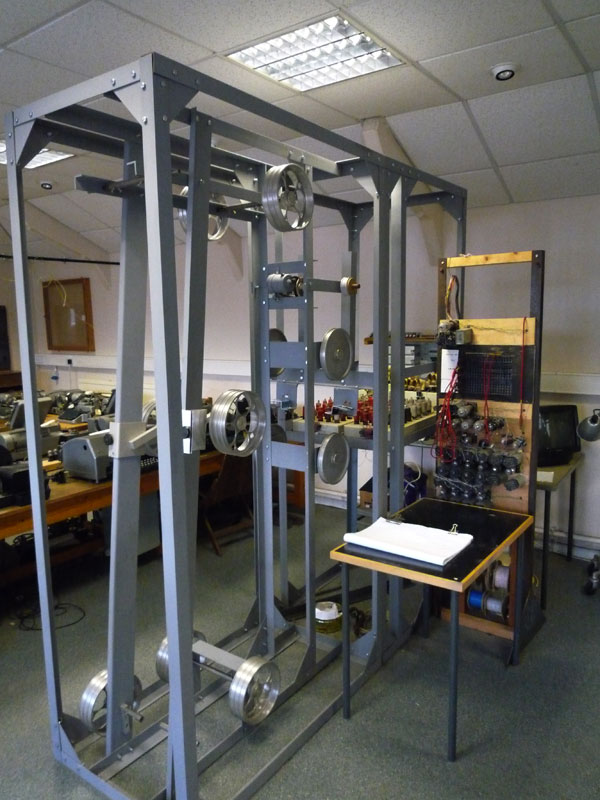 Heath Robinson (codebreaking machine) at the National Museum of Computing. In use it would have a continuous loop of punched paper tape going around the wheels